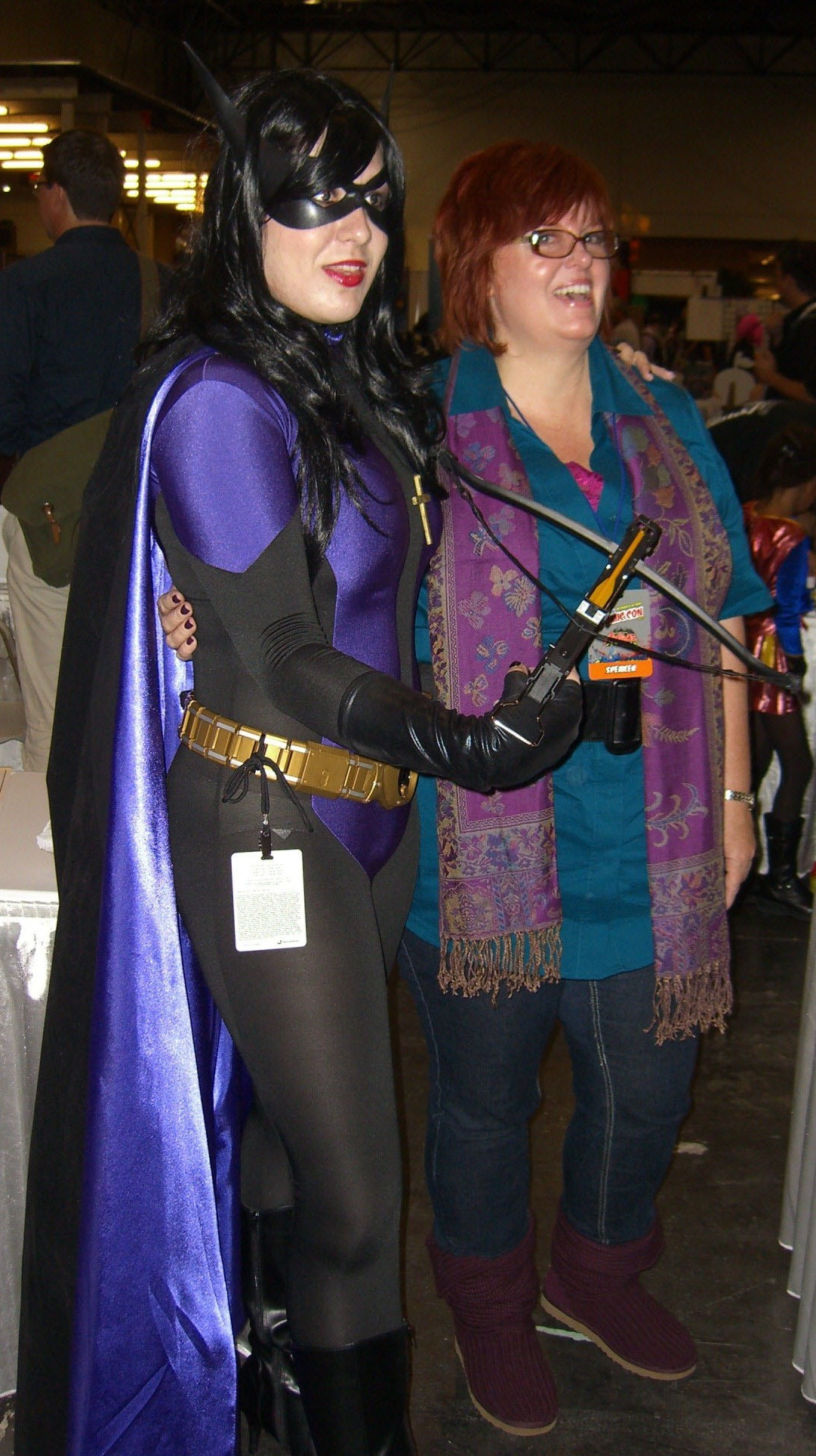 Comic book creator Gail Simone, posing with a fan dressed as the Huntress at the New York Comic Convention in Manhattan, October 9, 2010. Photo by Luigi Novi. This photo may be used, modified and published for any purpose, only if a easily visible credit to the photographer is placed near the photo in each instance in which it is used. (See licensing information below.) Publication of this photo without this proper attribution constitute copyright infringement. For more information on my photos, you can contact me here.